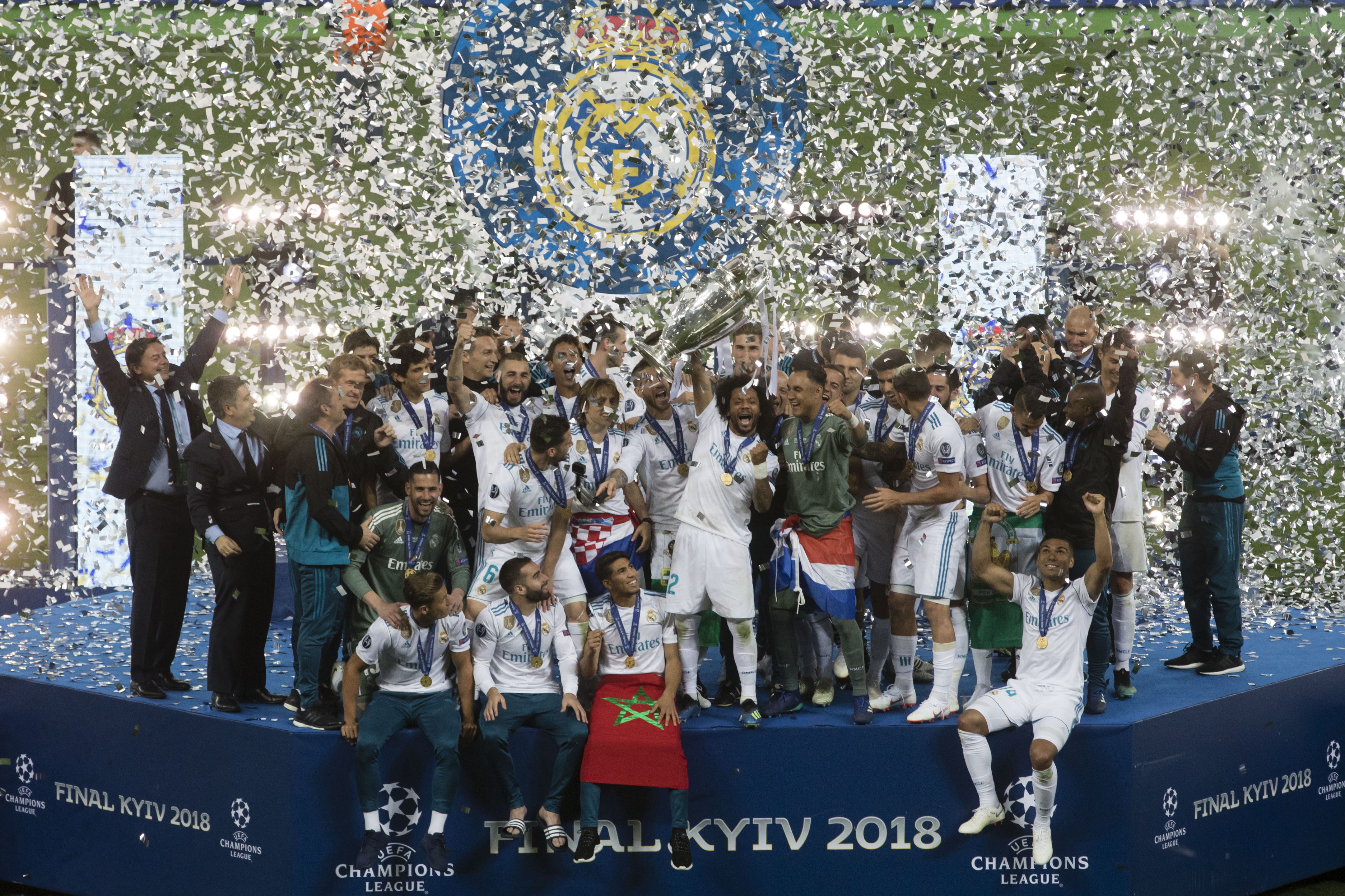 Real Madrid celebrate their UEFA Champions League victory after the 2018 final at NSC Olimpiyskiy Stadium in Kiev, Ukraine.